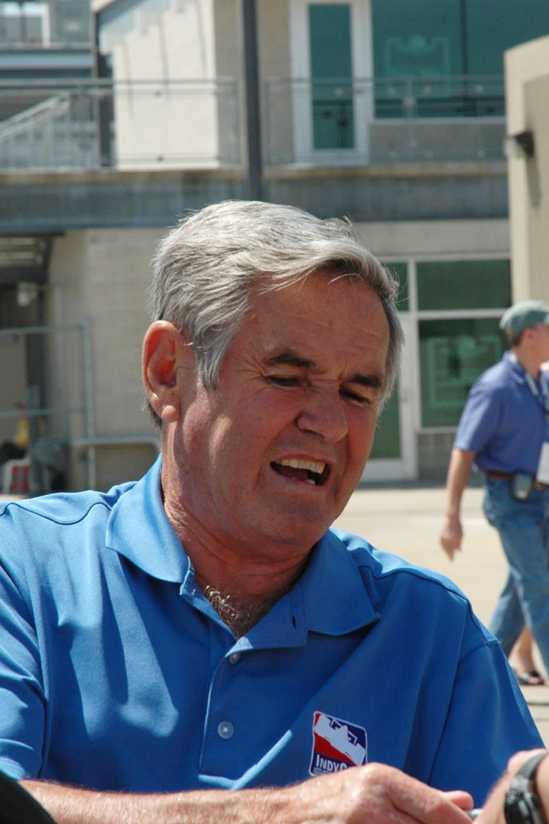 Four time Indy 500 winner Al Unser, Sr. taken at the 2007 Indy 500